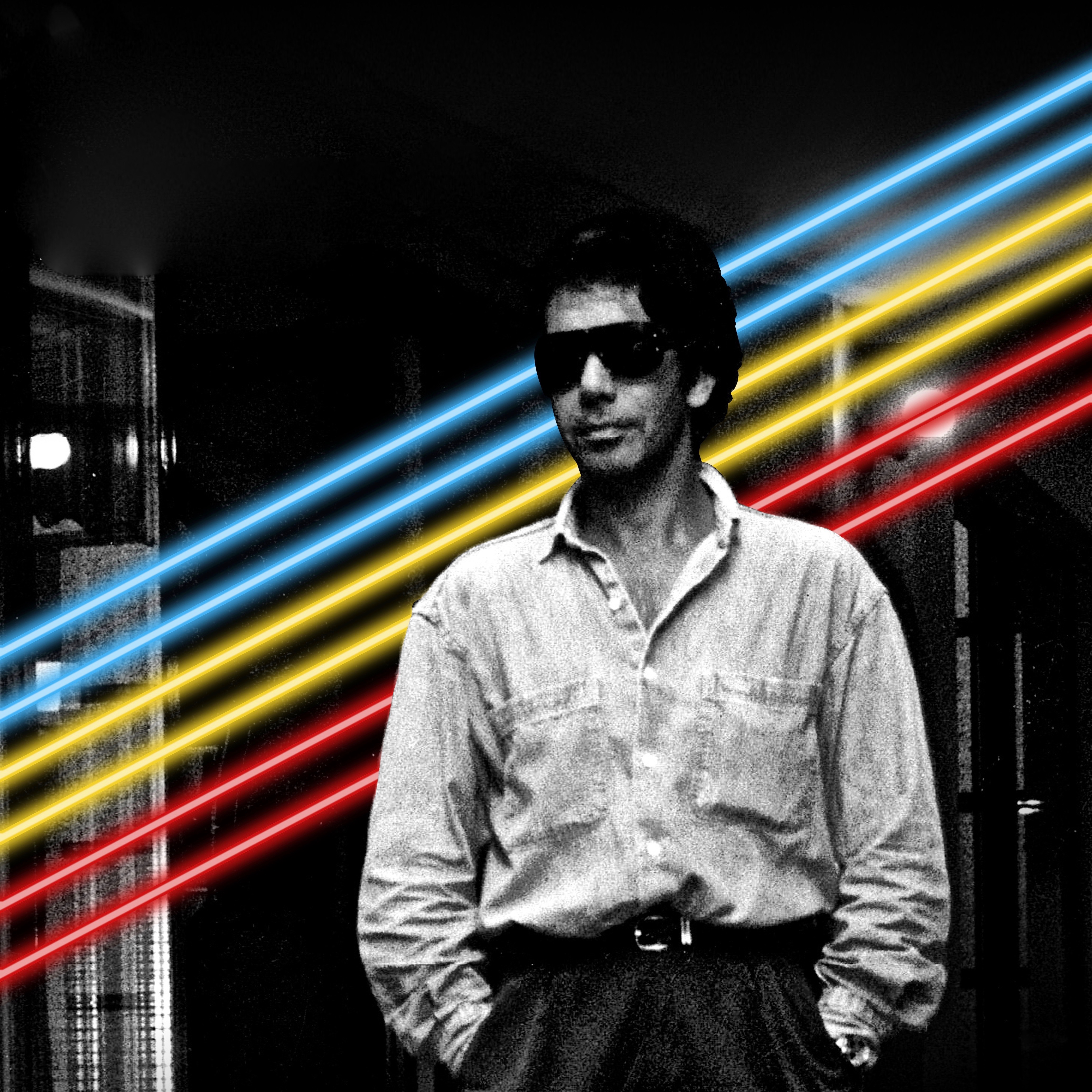 other_versions= This file has been extracted from another file: Pino-presti lugano 90s.jpg